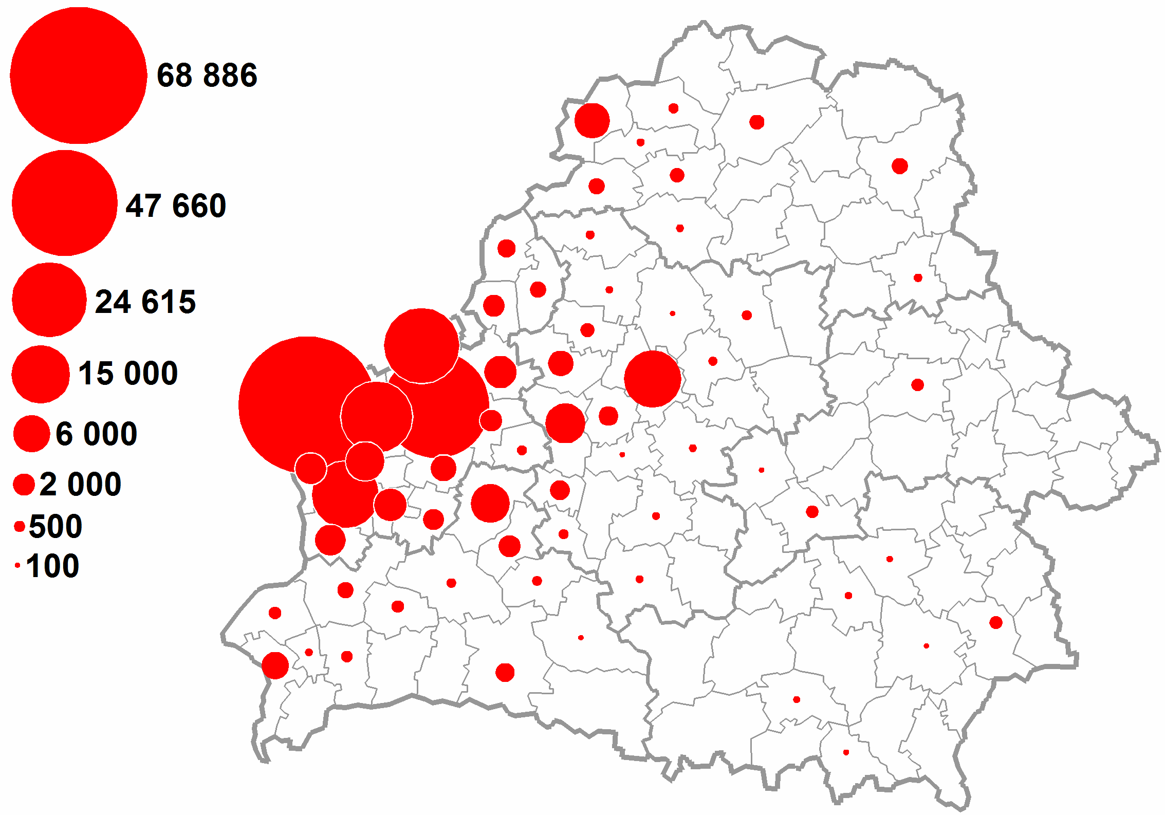 Ethnic Poles distribution according Belarus 2009 census data. District level cities and Minsk data and surrounding district data were summed